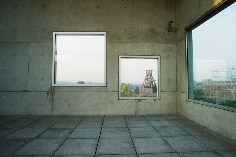 Kazuyo Sejima, Ryue Nishizawa / SANAA : Zollverein School of Management and Design, Essen, Germany